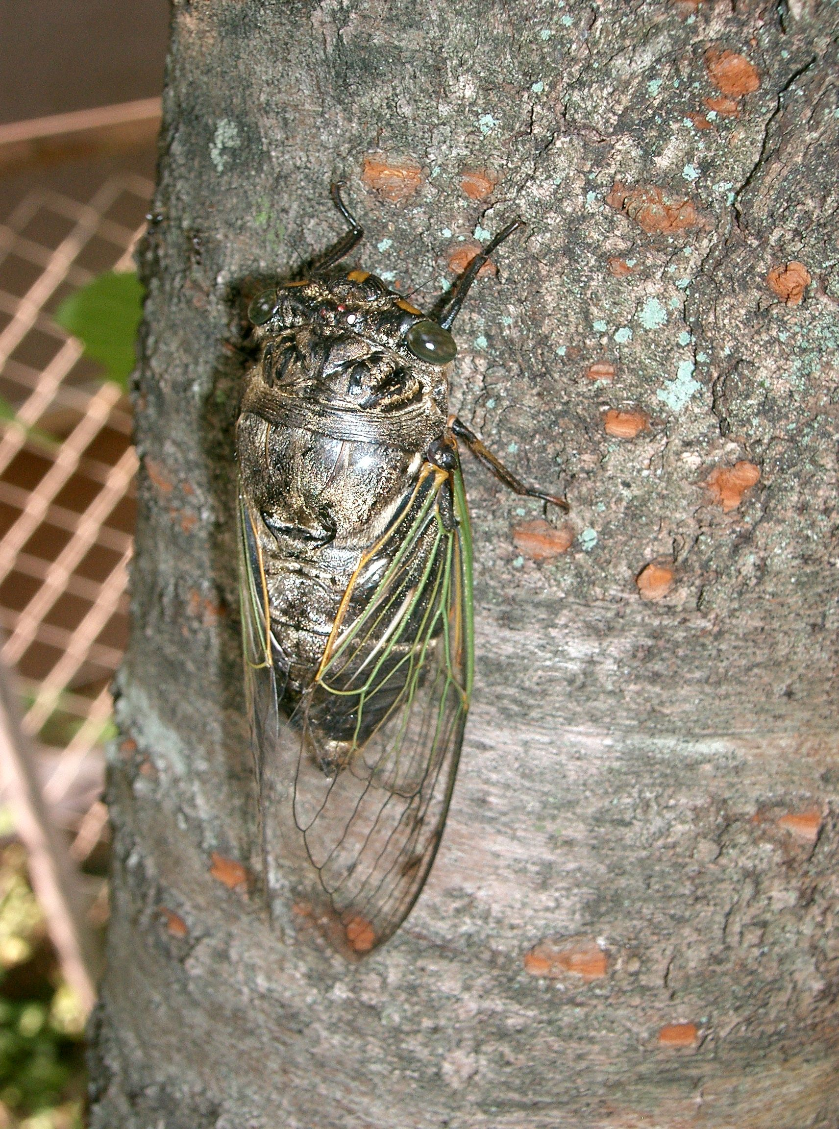 Cryptotympana facialis